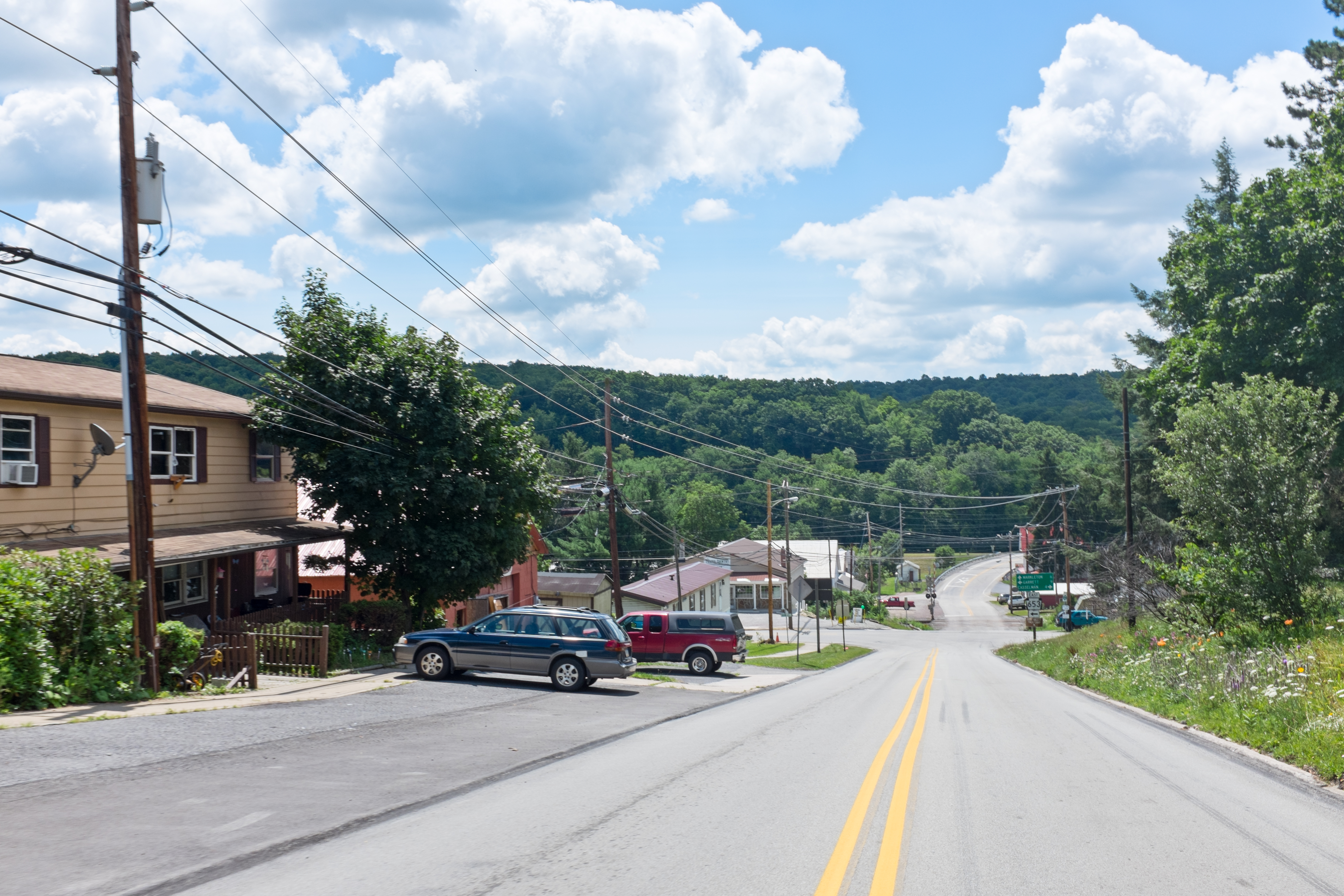 Town of Rockwood in Somerset County, Pennsylvania